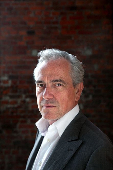 Vlaams acteur